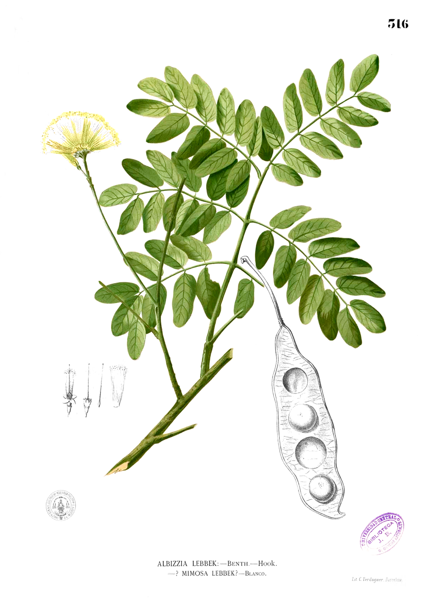 Plate from book